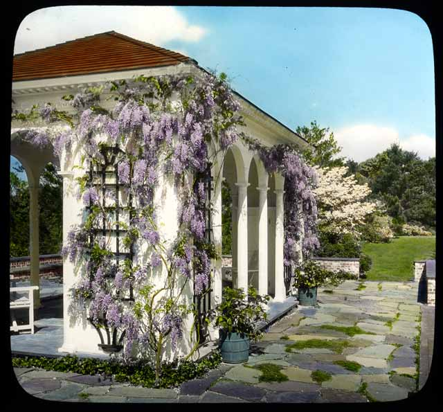 Davis Garden pergola - Locust Valley (Town of Oyster Bay), New York. Creator: Davis, John W., Mrs North Country Garden Club Type: Projected media Date: 1930 Topic: Spring Garden houses Espaliers Wisteria Columns Arches Walkways, flagstone Walls, brick Barrels Flowering trees Local number: NY096001 Physical description: 1 slide: glass lantern, col.; 3 x 5 in Place: Davis Garden (Locust Valley, New York) Persistent URL: Repository:Archives of American Gardens View more collections from the Smithsonian Institution.